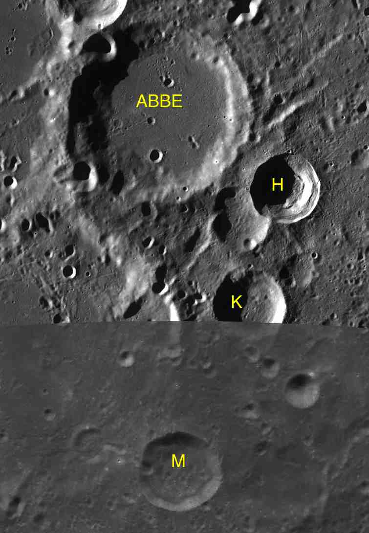 Part of the chart LAC-132 used for the presentation